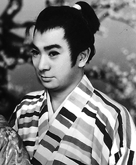 Cropped studio still for 1959 Japanese movie The Badger Palace: Happy New Year (初春狸御殿 Hatsu Haru, Tanuki-goten), featuring Shintarō Katsu (勝新太郎).